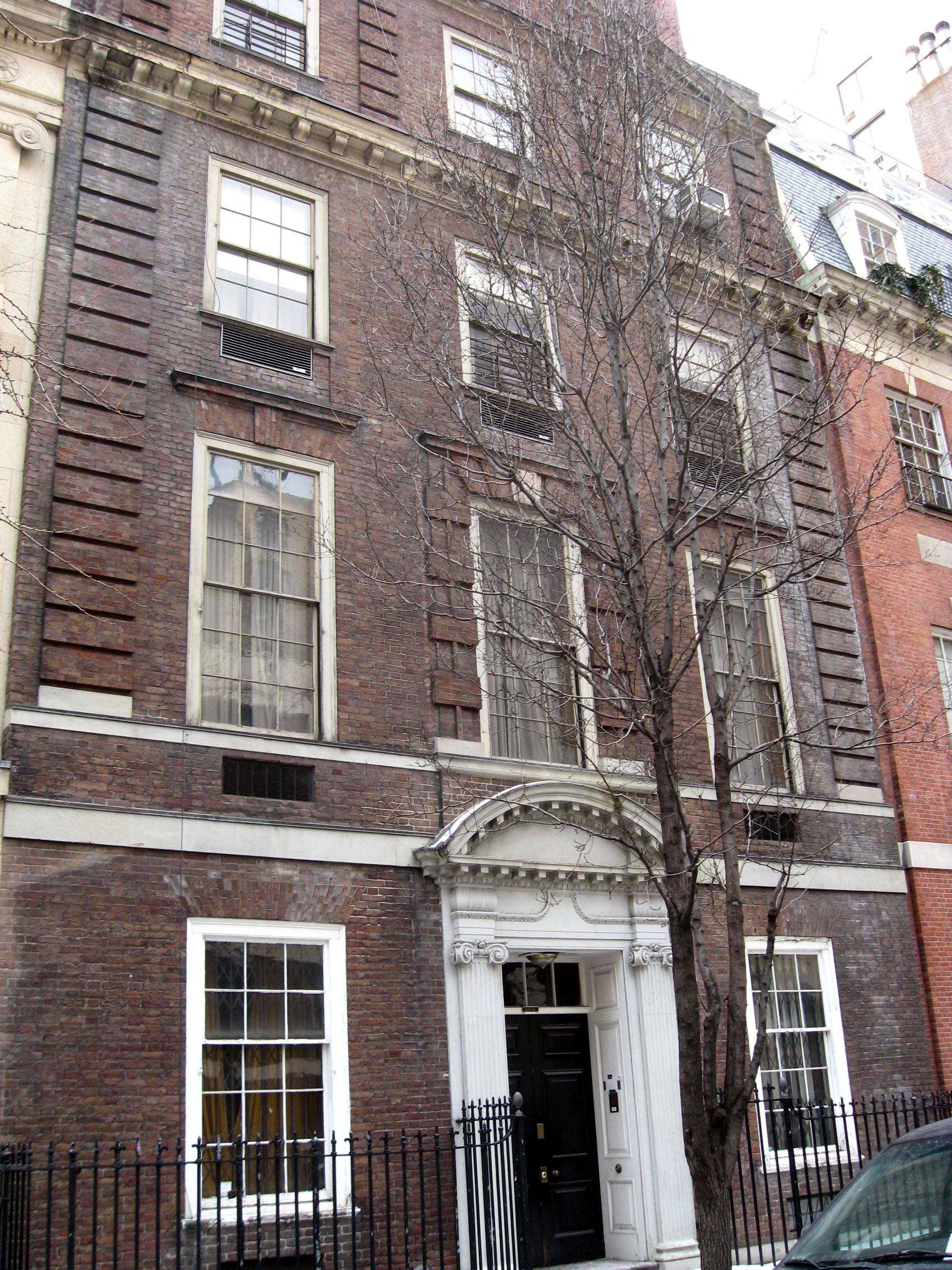 Looking southwest across East 80th Street at 124 E80, the Clarence Dillon house. NYCLPC designation 1967.